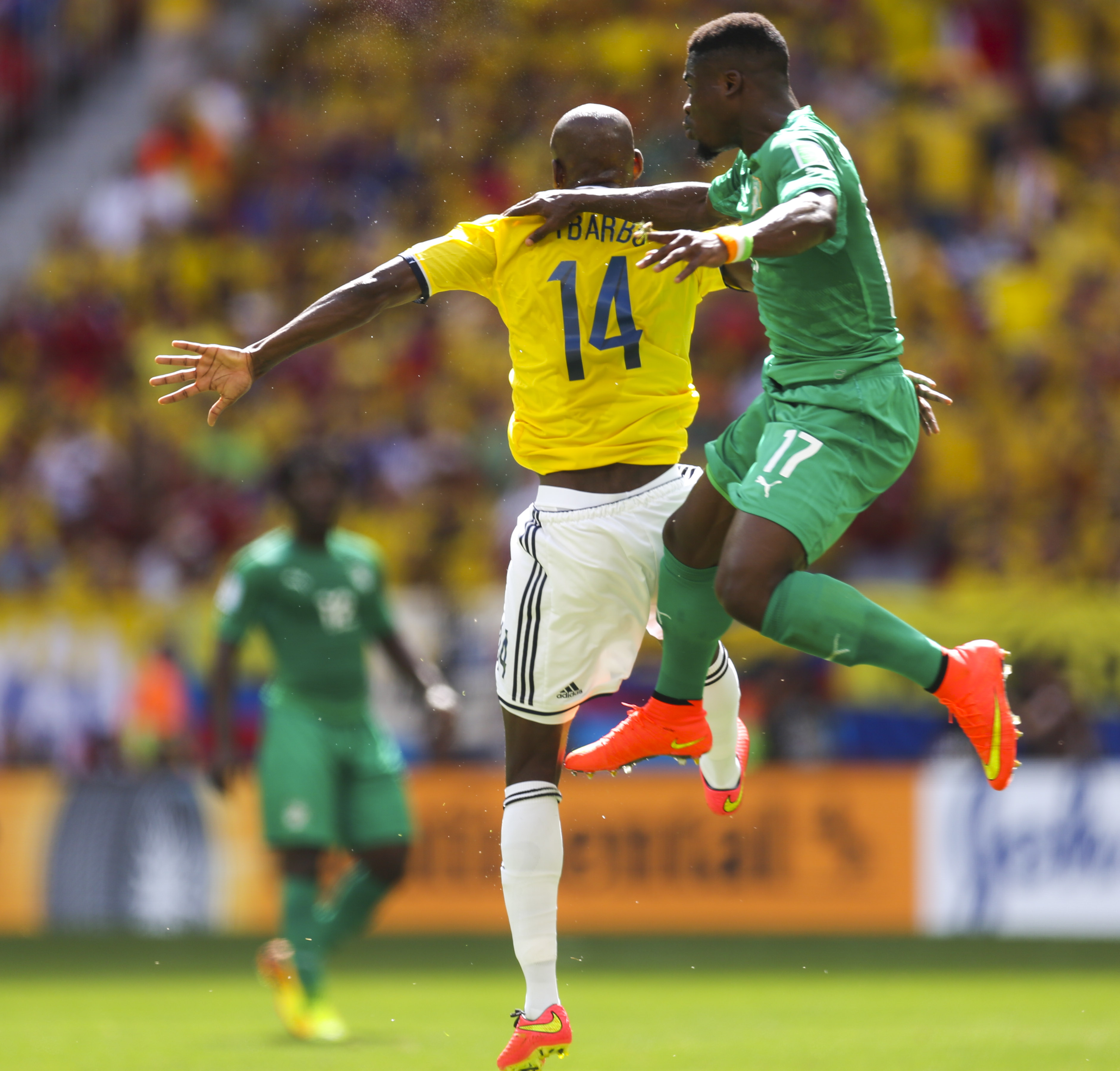 Colombia and Ivory Coast match at the FIFA World Cup 2014-06-19